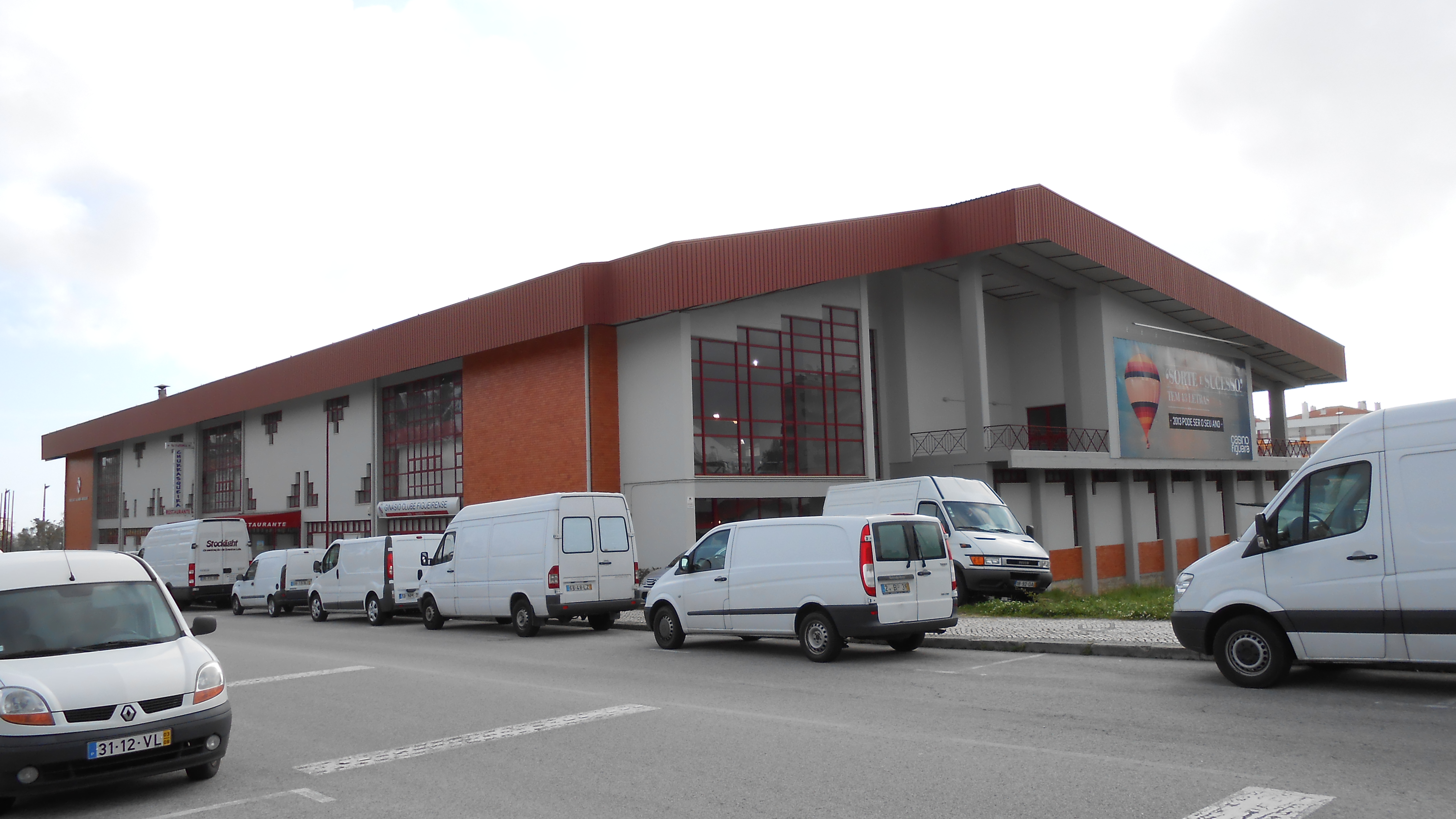 Partial view of the main building of Ginásio Clube Figueirenses sports venues, in Figueira da Foz